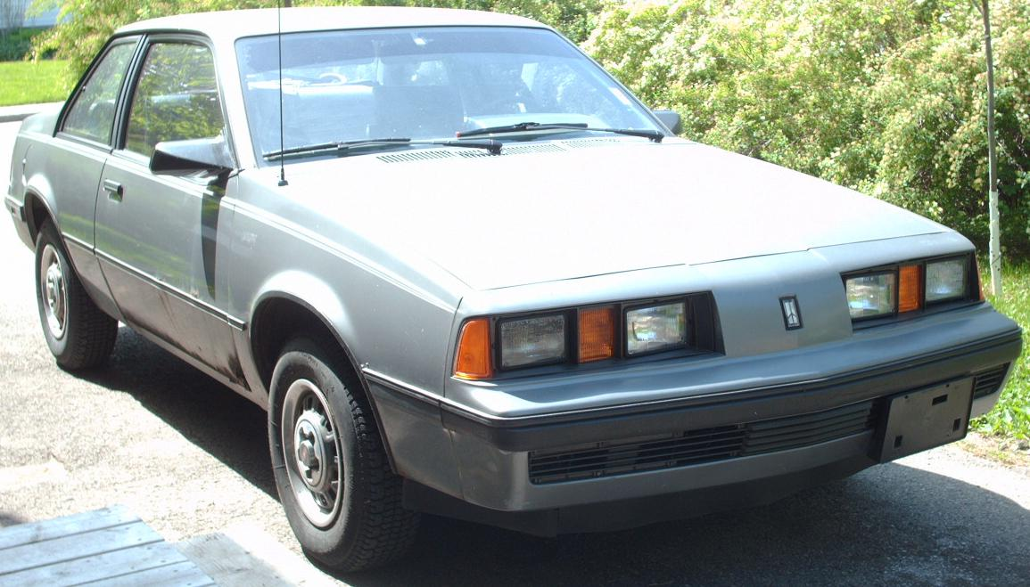 1984-1987 Oldsmobile Firenza coupe photographed in Montreal, Quebec, Canada.